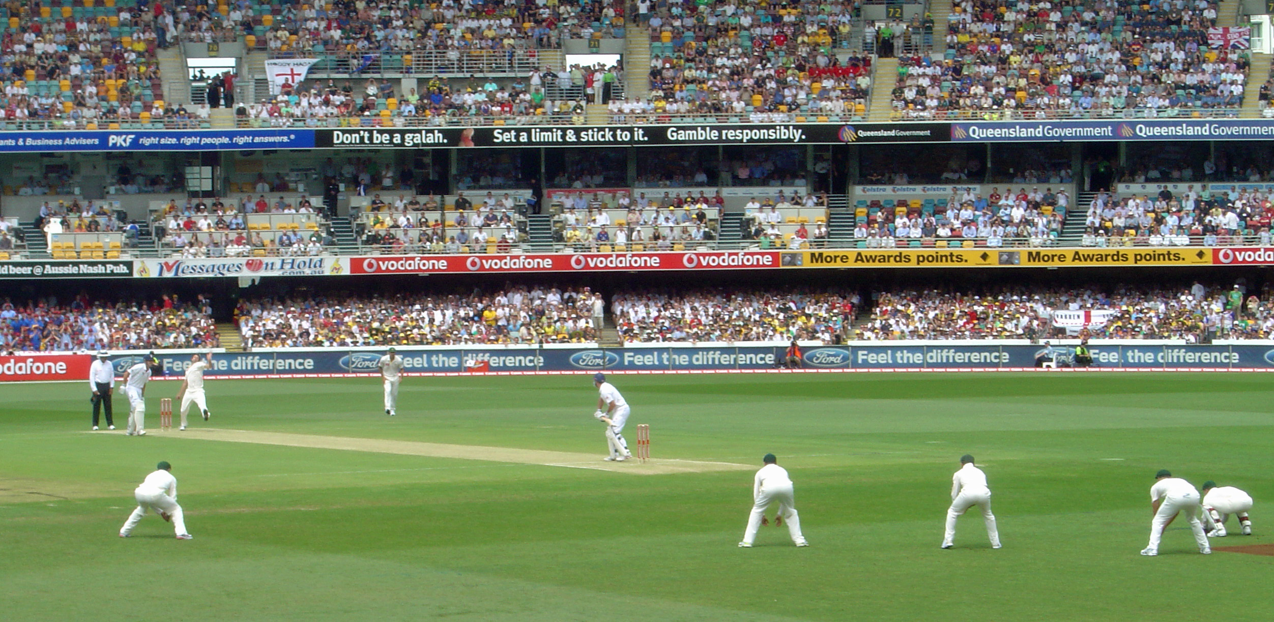 First ball, first test, Australia v England and Hilfenhaus bowls to Strauss